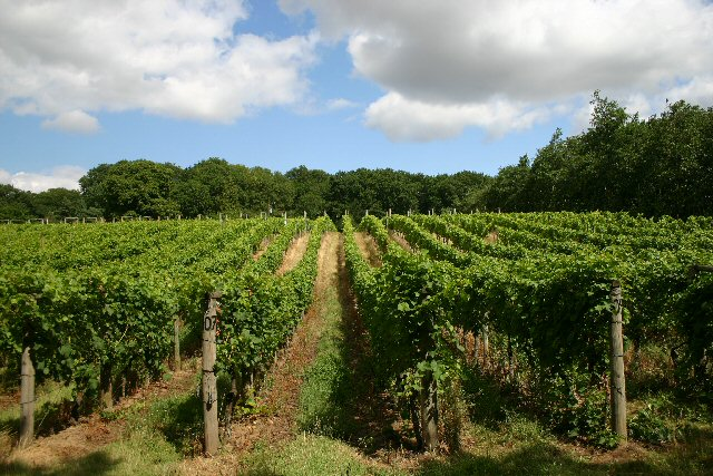 Vineyard at Wyken Hall. The seven-acre vineyard was planted in 1988; it produced its first vintage in 1991. Wyken Vineyard is well-established and recognised as producing some of the best of the English wines.